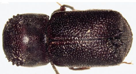 Sinoxylon unidentatum, dorsal view.